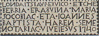 Atalburu of Londaits or Irundaitz house, 1740.